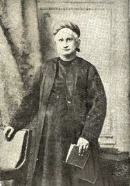 Rishi Bankim Chandra Chattopadhyay